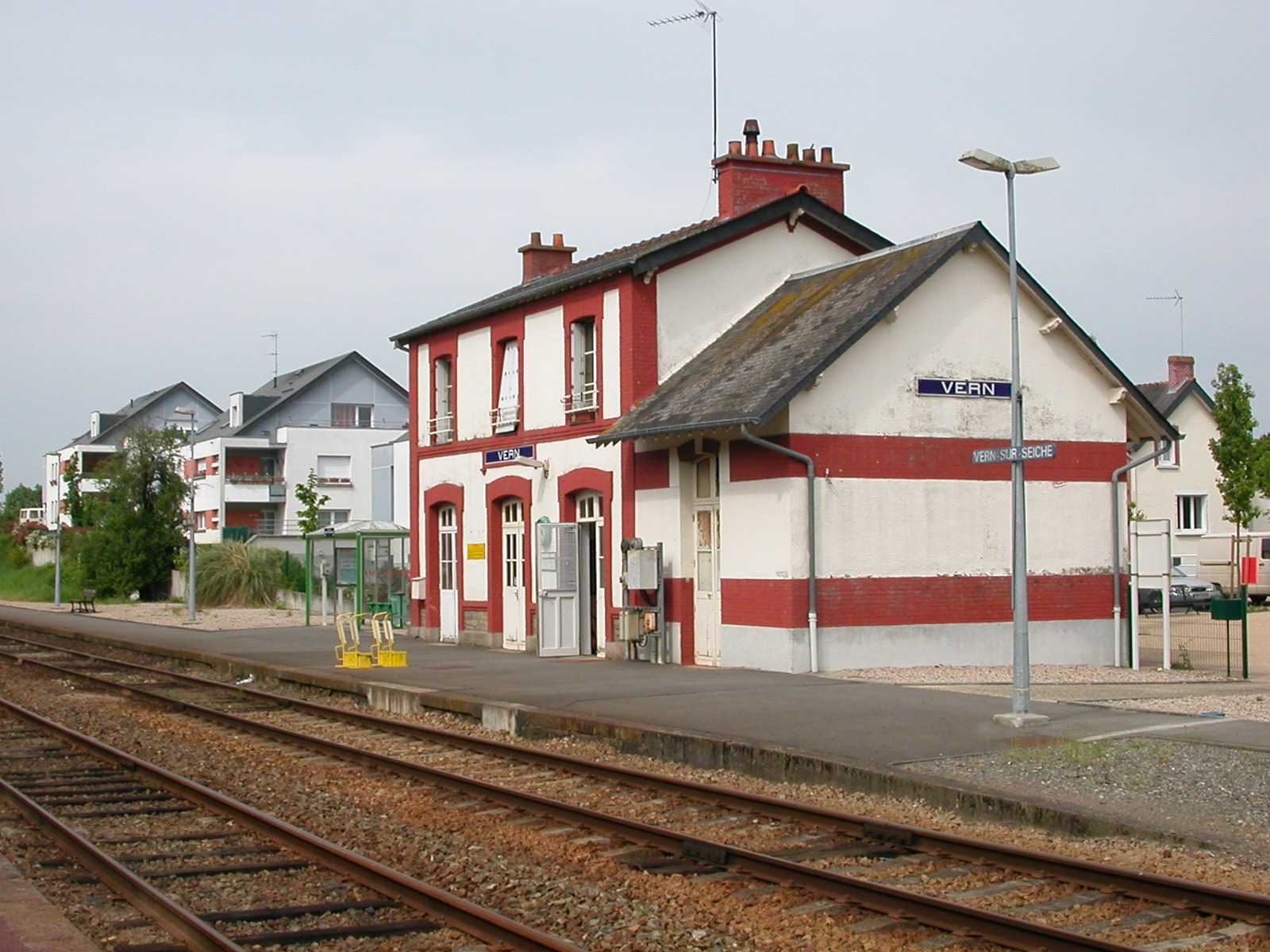 Train station of Vern-sur-Seiche